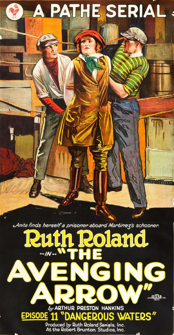 The Avenging Arrow is a 1921 American western film serial directed by William Bowman and W. S. Van Dyke. This is a poster for episode 11, "Dangerous Waters."